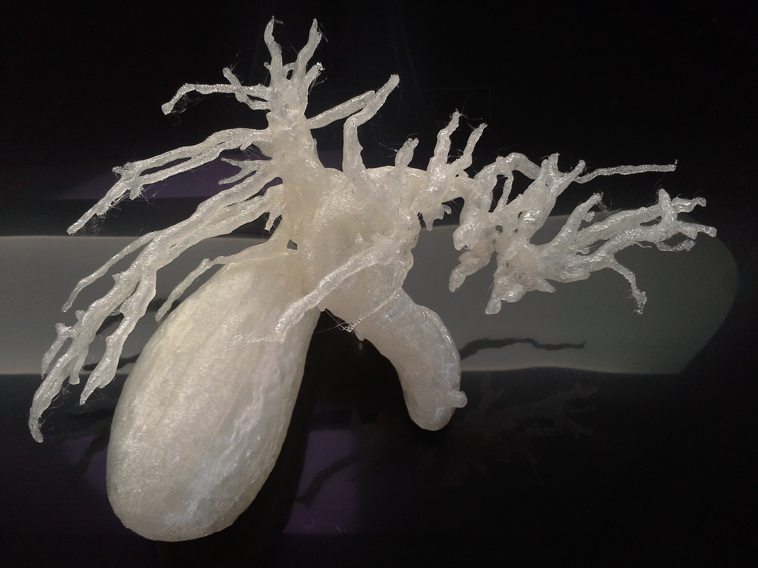 3D printed Biliary system. Hydropic gallbladder, dilated hepatic duct, dilated common bile duct and intrahepatic biliary ductal dilatation in a patient with benign biliary stricture. Original data from MRCP (Magnetic resonance cholangiopancreatography)